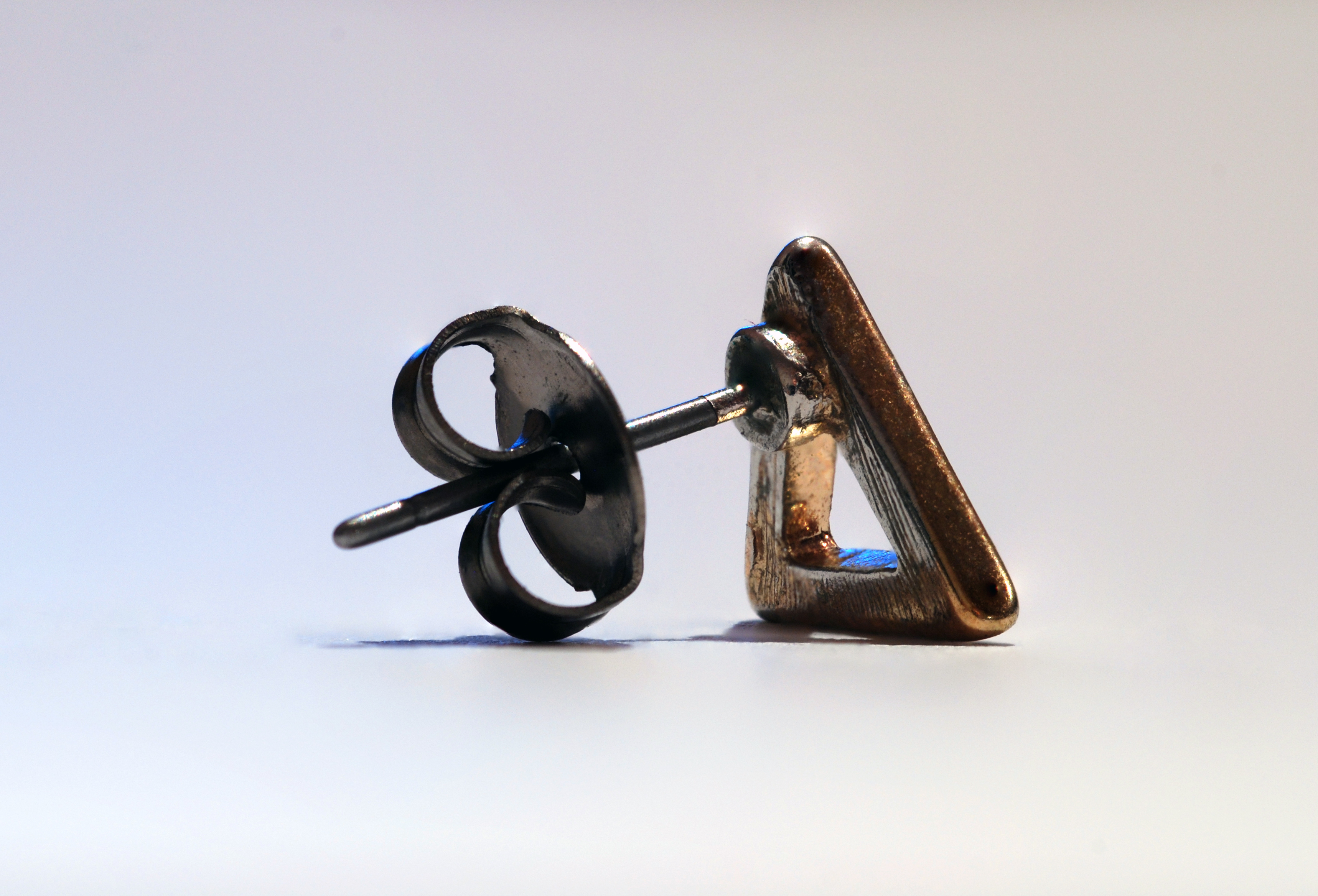 Macrophotography of a single stud earring and its clutch